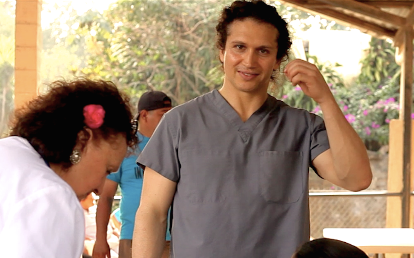 Fraser Kershaw in El Salvador